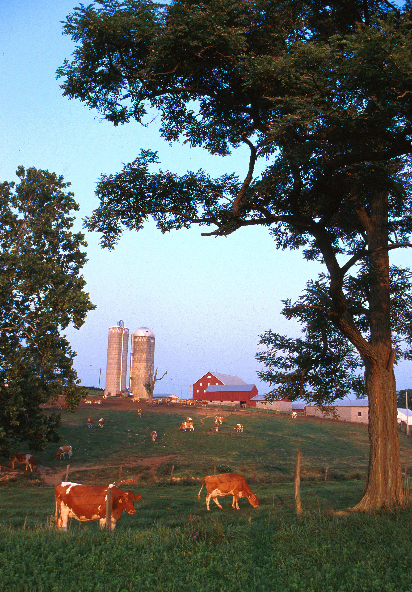 A small dairy farm in western Maryland. The U.S. Department of Agriculture defines "small farms" as those averaging $50,000 in gross sales annually—which net, on average, around $23,159.